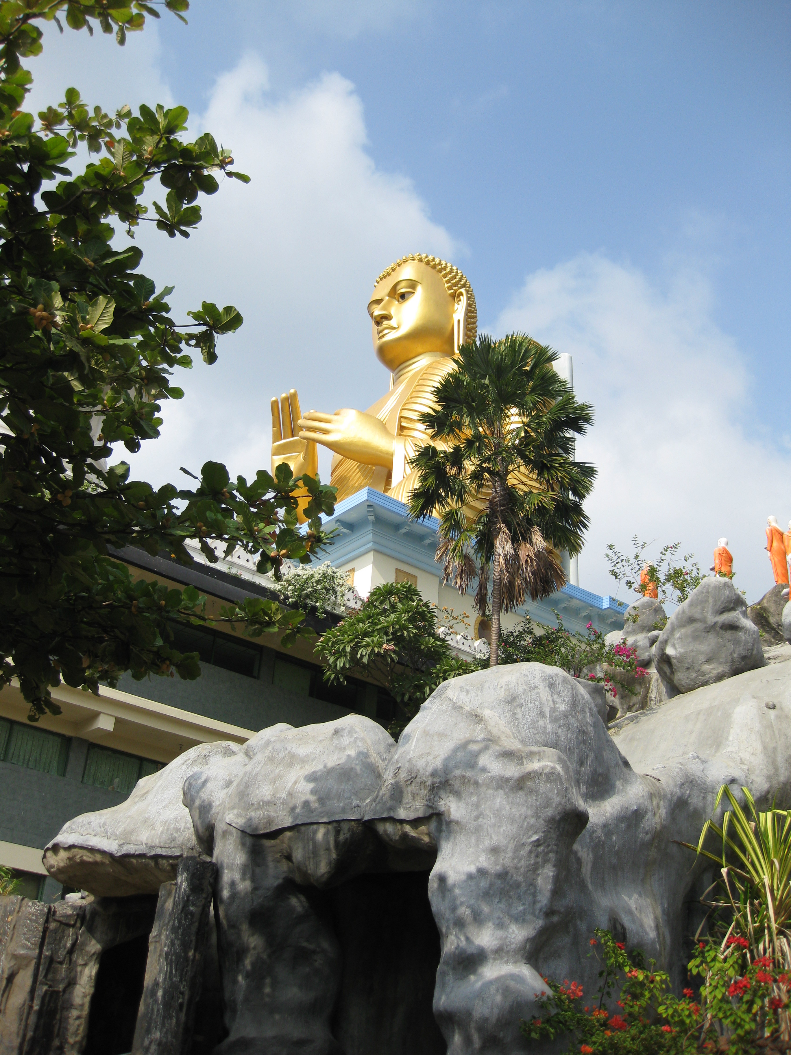 A parting shot of the mighty Golden Buddha statue in the preaching pose at the Golden Temple Dambulla. Too bad I was in no physical or mental state to survive the arduous trup up the hill to the cave temples behind this statue. (May/ June 2011)